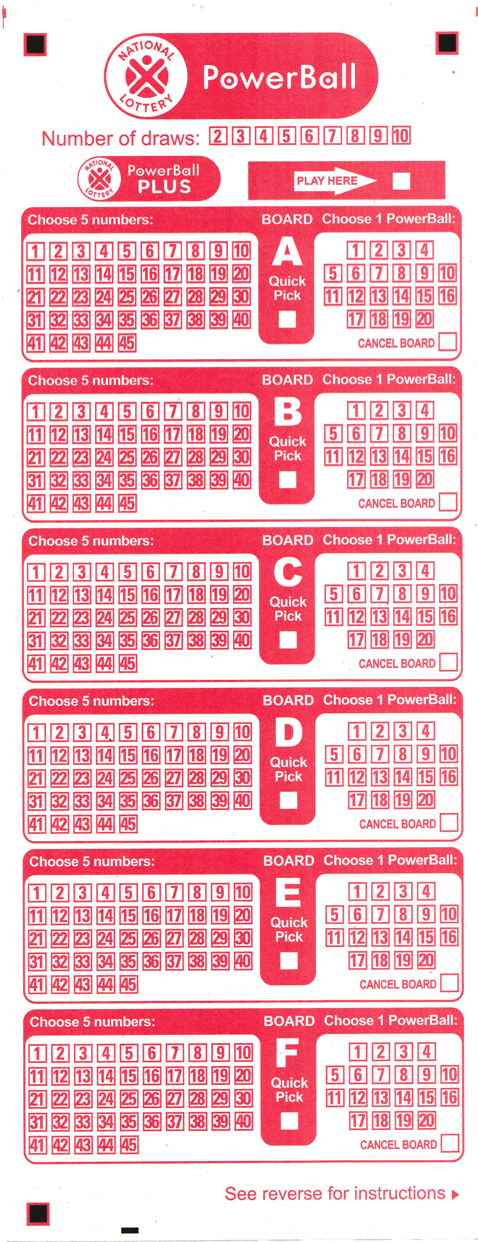 Powerball coupon of lotto South Africa